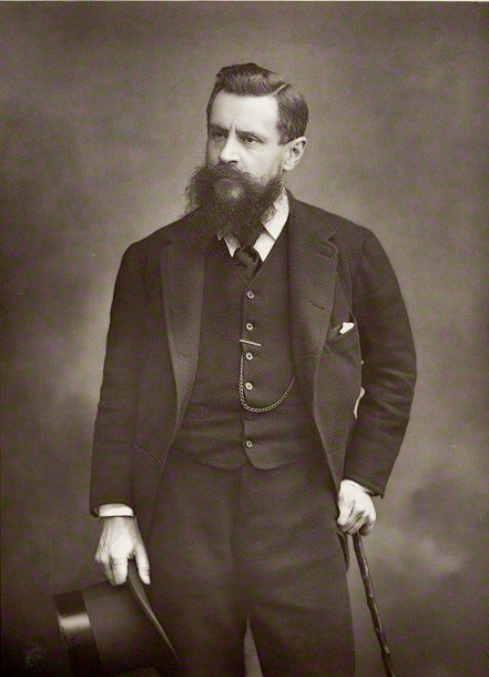 Henry Fitzalan-Howard, 15th Duke of Norfolk (1847-1917)